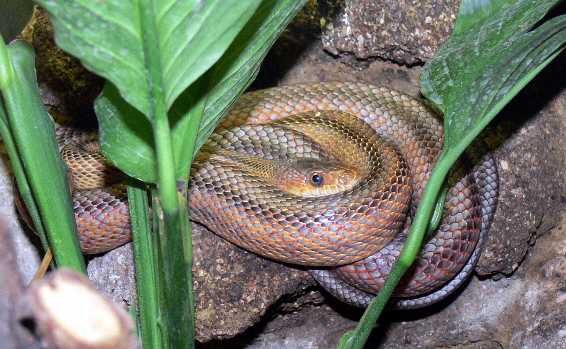 Elaphe bairdi, Baird's rat snake